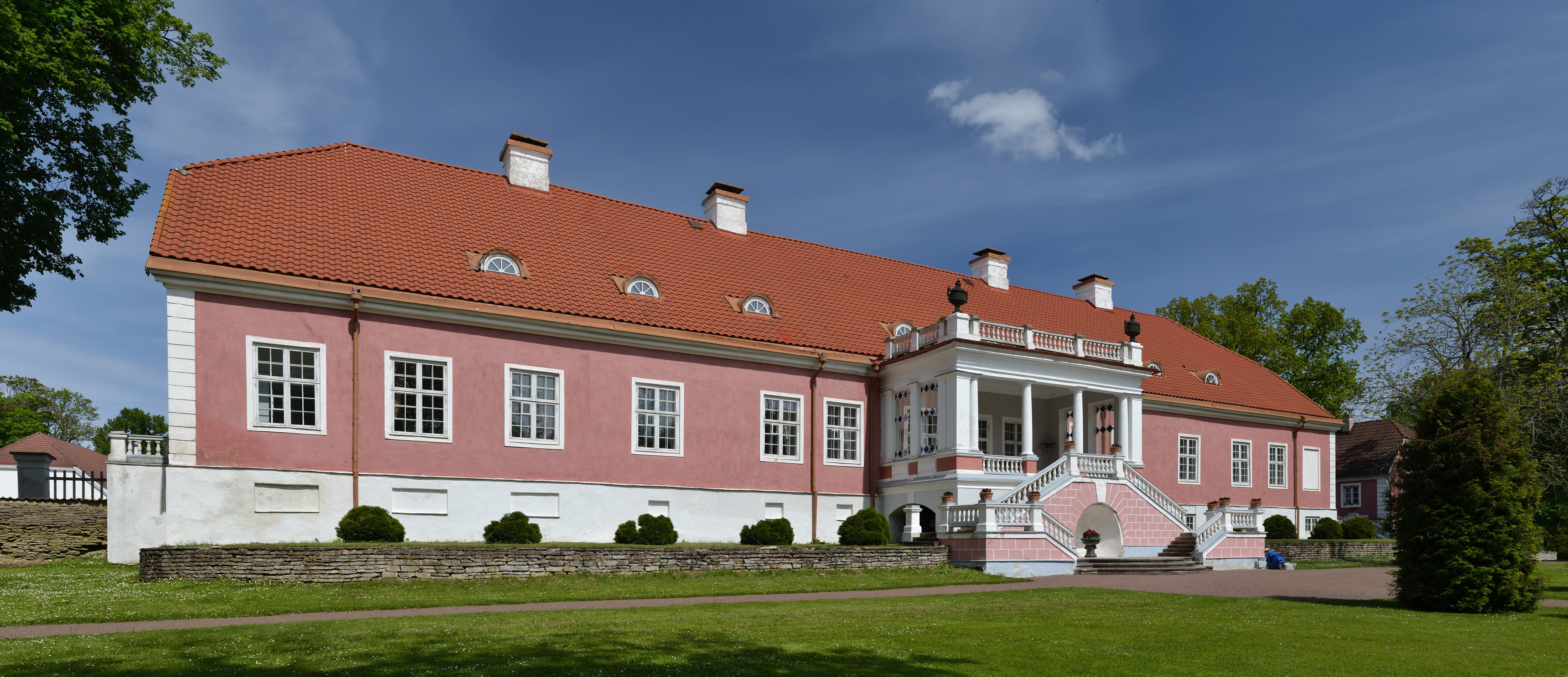 Sagadi manor main building. Built during two periods: 1749–1750 and 1793–1795.